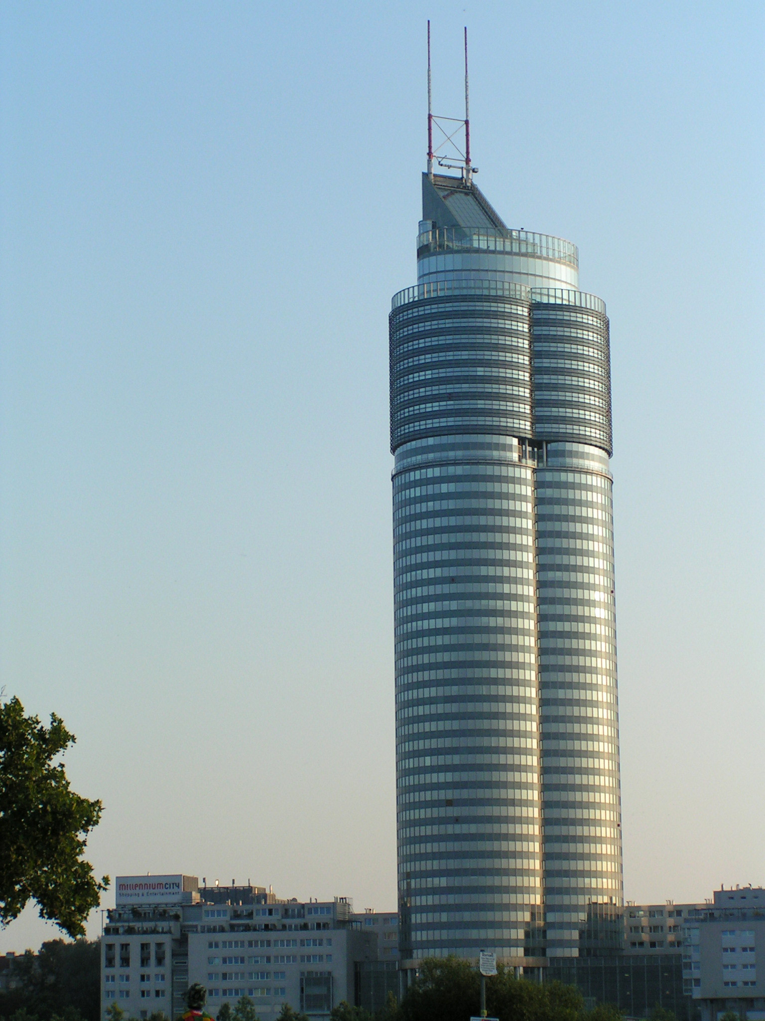 Millenium-Tower in Vienna